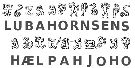 reading of the cipher on the larger Gallehus horn according to Hartner (1969)